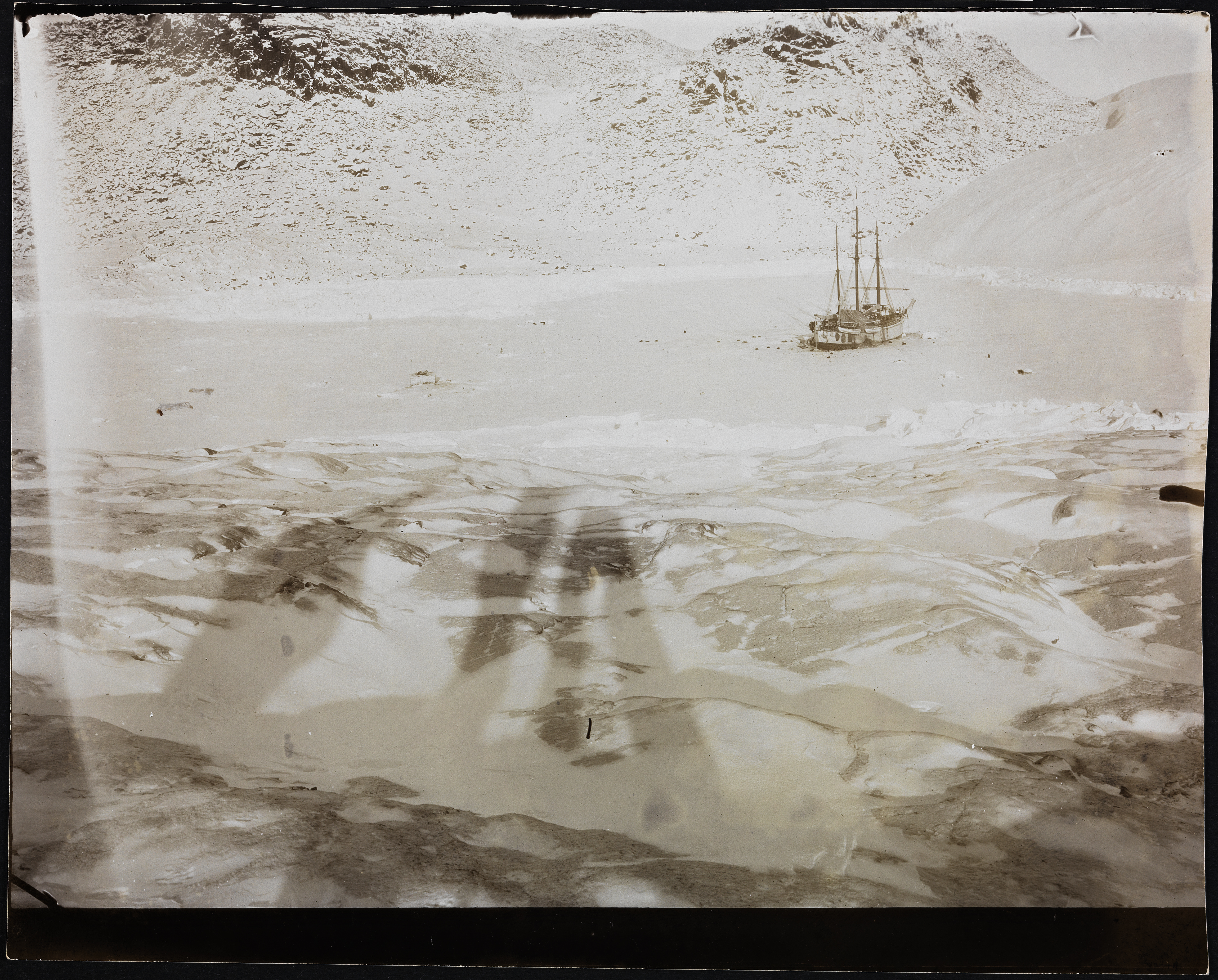 Beskrivelse / Description: 2. Fram-ekspedisjon: Nord-vest-Grønland og øyene nord for Øst-Canada : 1898-1902 / 2nd "Fram" expedition : Northwest Greeland and the islands North of East Canada Dato / Date: ca. 1898/1899 Sted / Place: Arktis / the Arctic Fotograf / Photographer: ukjent / unknown Digital kopi av original / Digital copy of original: s/h papirpositiv Eier / Owner Institution: Nasjonalbiblioteket / National Library of Norway Lenke / Link: Bildesignatur / Image Number: bldsa_SVpos_0004